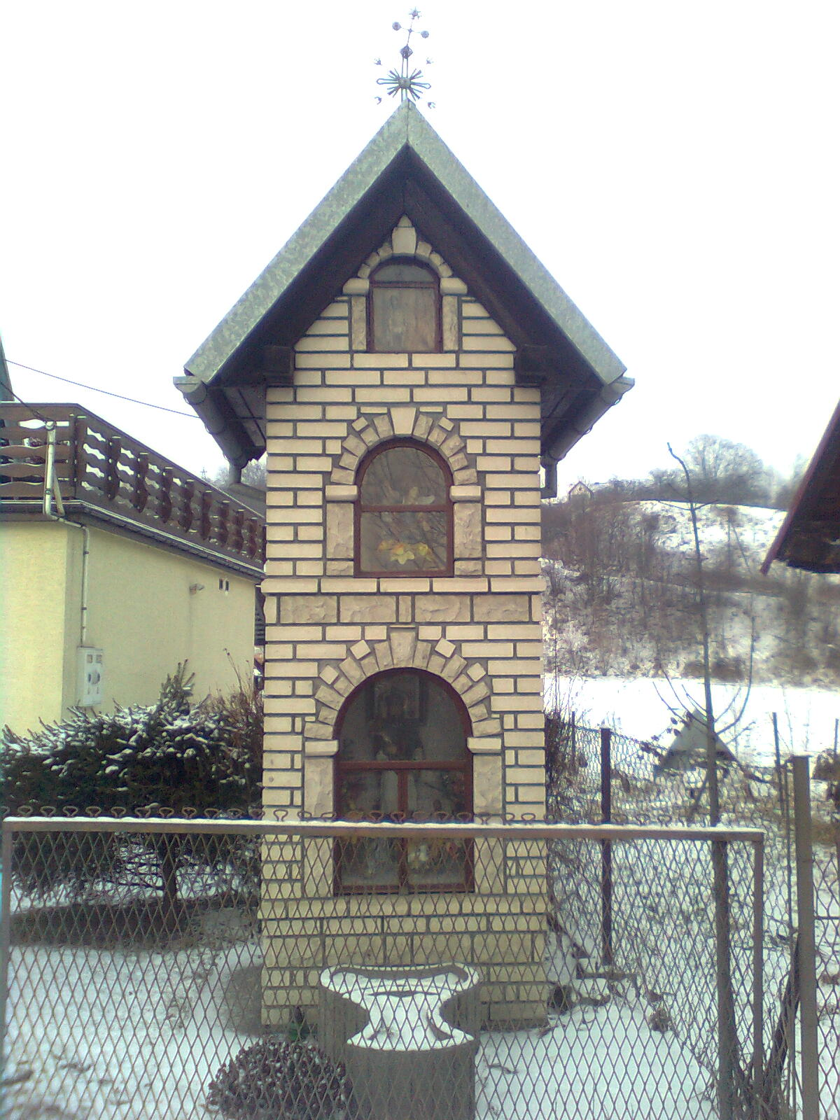 Wayside shrine of Jesus Christ in Podegrodzie (Lesser Poland Voivodeship)